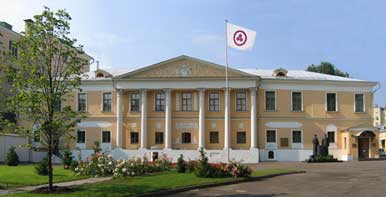 Мuseum by name of Nicholas Roerich in Moscow